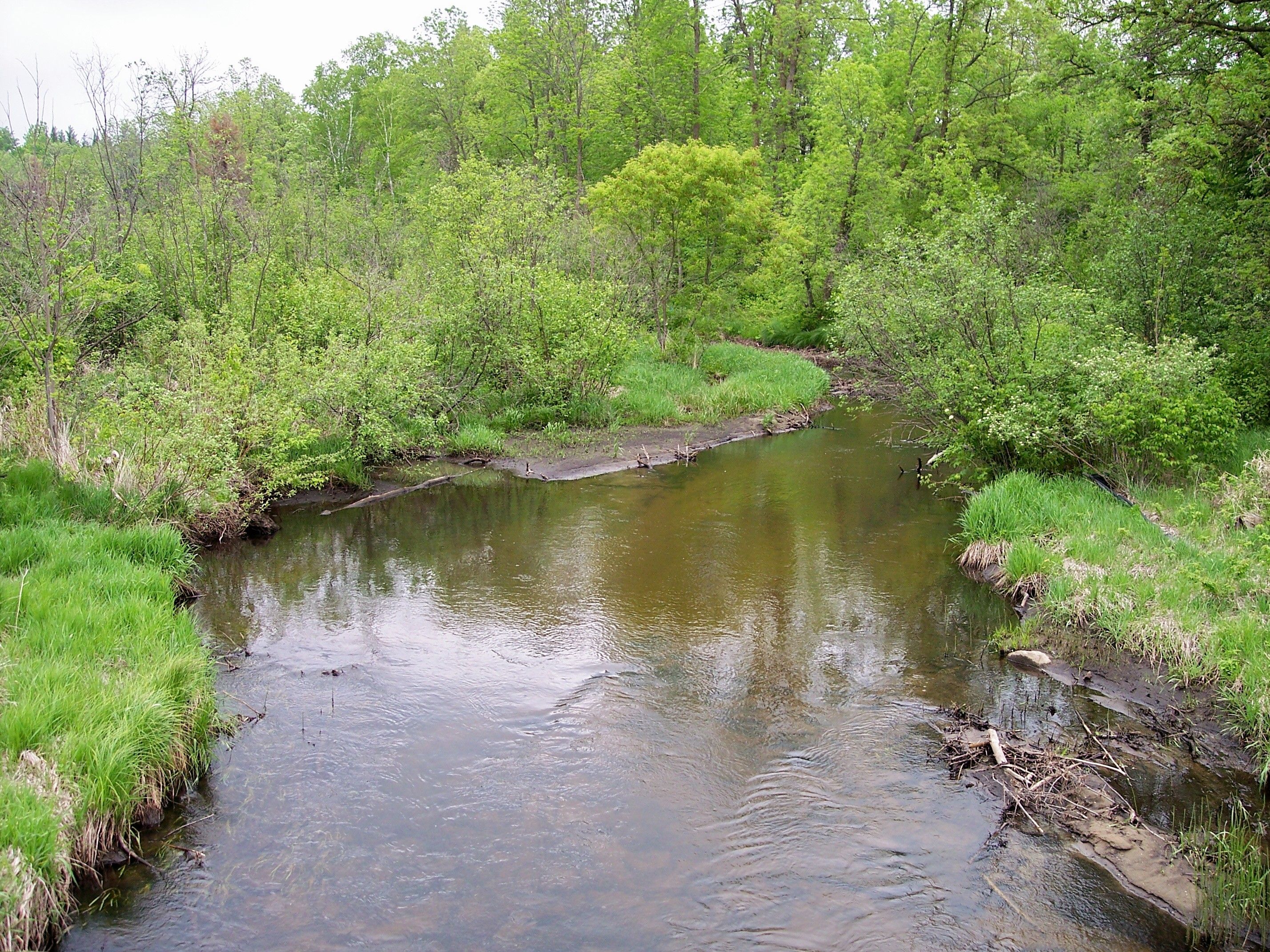 The Blueberry River as viewed from County Road 16 in Blueberry Township, Minnesota.